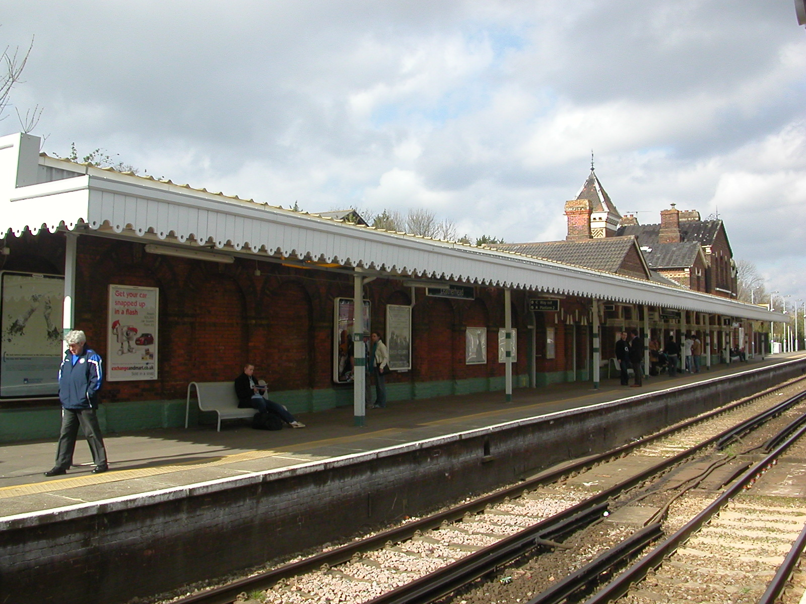 Up platform buildings at Leatherhead station. Photographed on 17th March 2007.